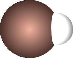 Astatanechemical structure (presumably)